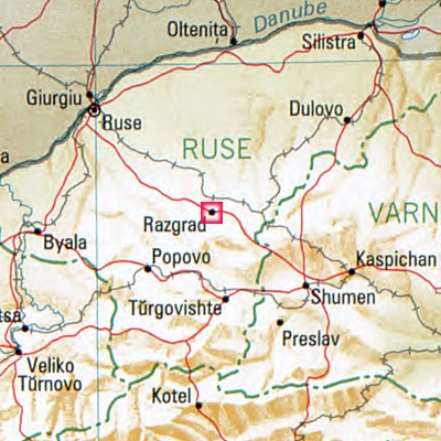 location of Razgrad in Bulgaria; part of the map Bulgaria_1994_CIA_map.jpg